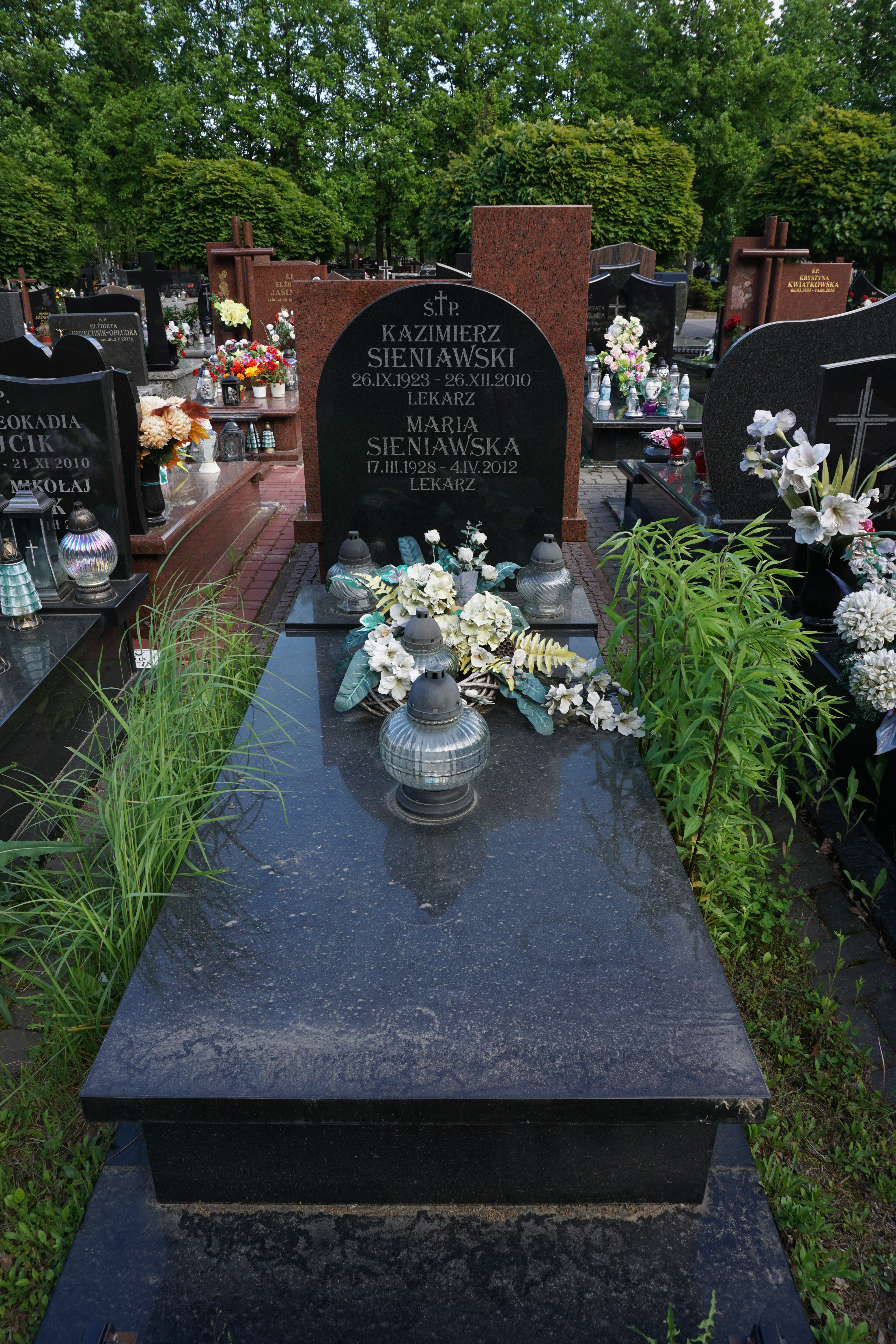 The grave of Maria Sieniawska at the North Municipal Cemetery in Warsaw (section B-IX-1, row 5, grave 18)